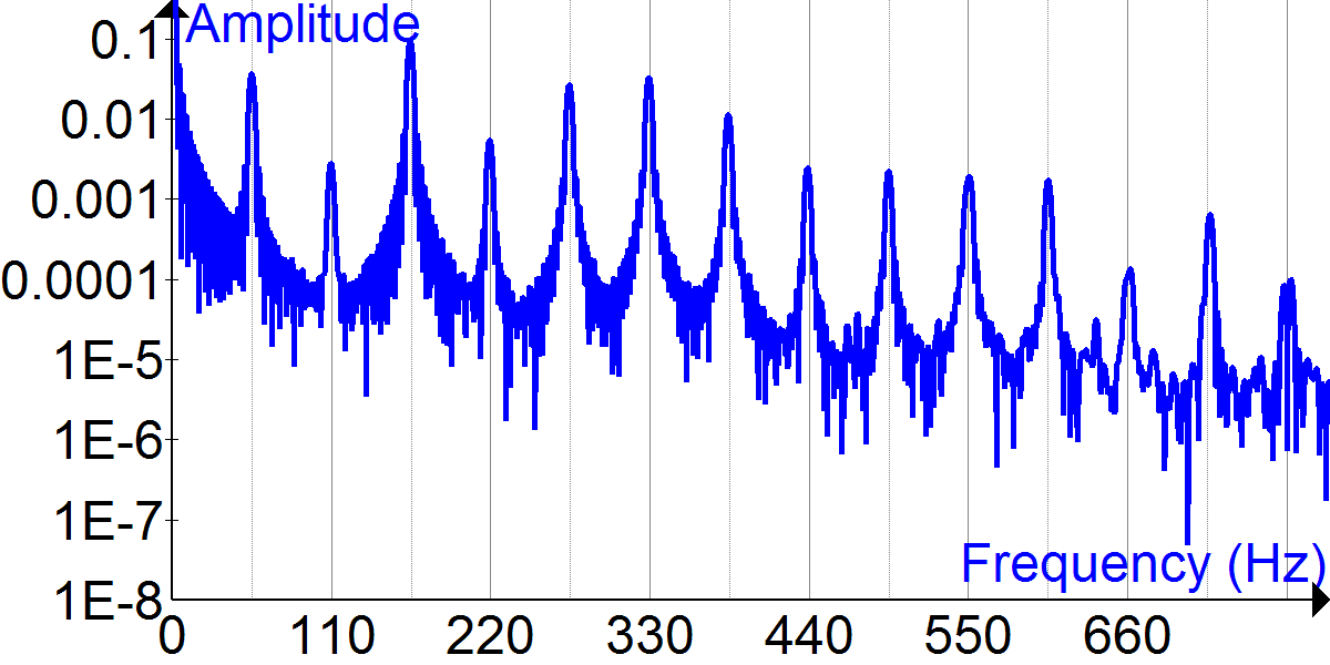 Fourier transform of bass guitar time signal of open string A note (55 Hz), computed with .